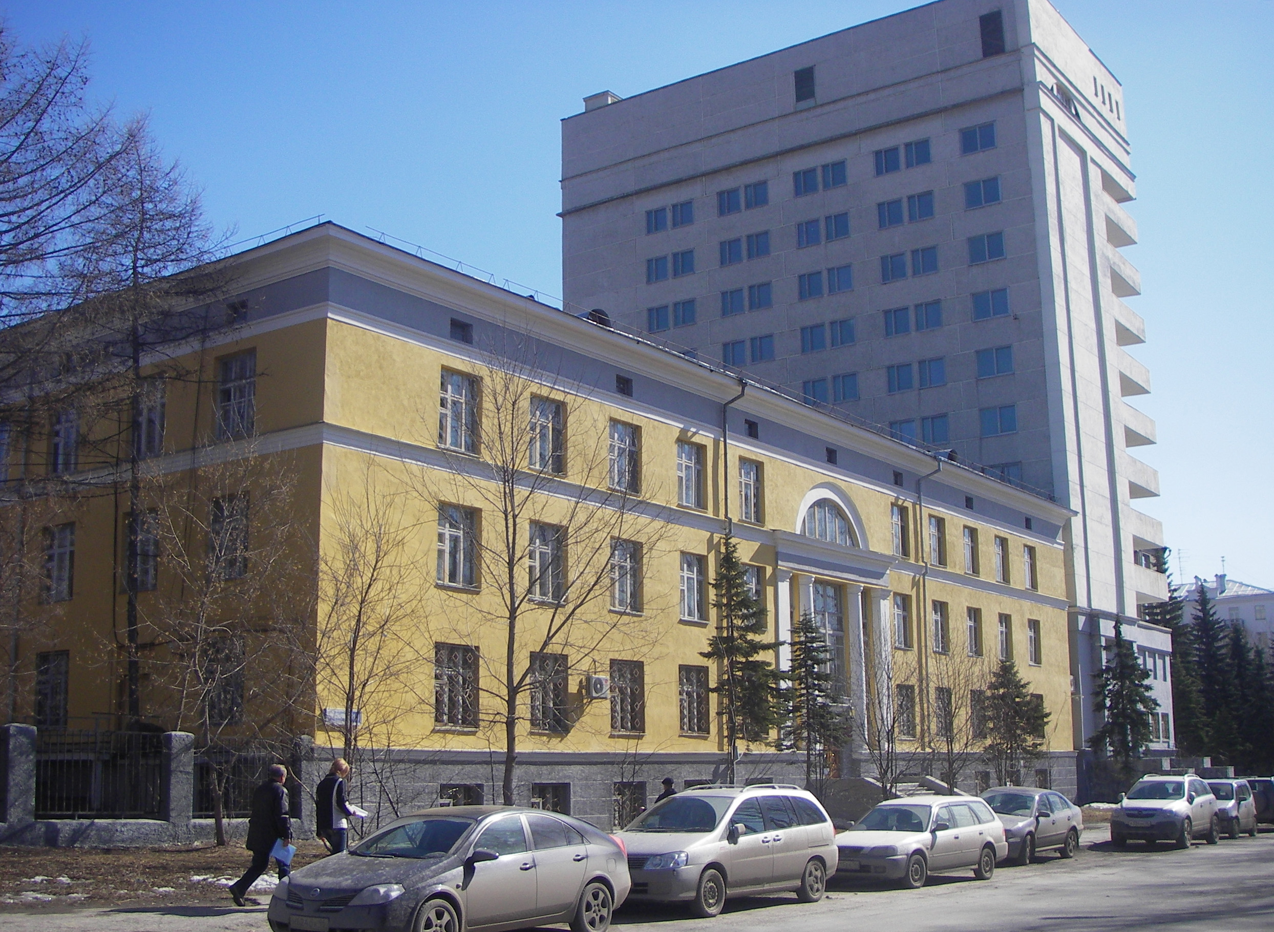 Institute of mathematics and mechanics, Ural division of Russian academy of sciences. Located in Yekaterinburg, Russia